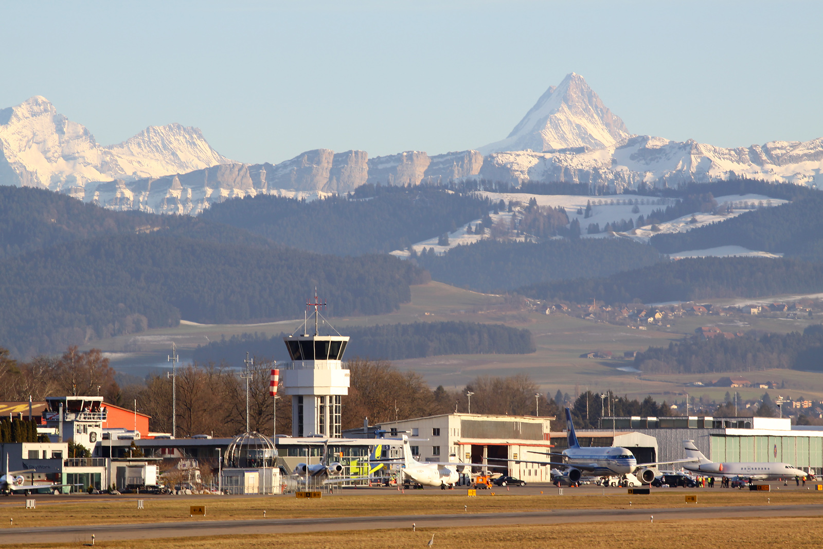 Overview of Bern Airport